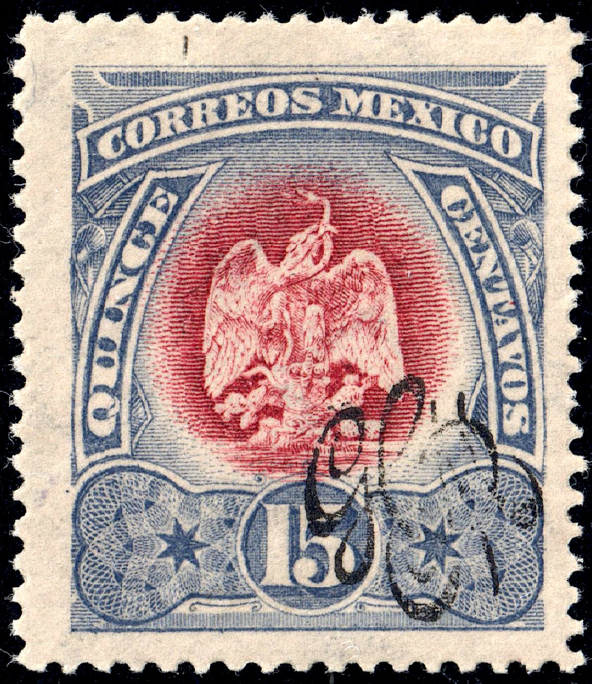 Mexico 1915 ' Carranza' or small monogram overprint on 1899 issue (Scott 299) unused. Genuine, MEPSI certified. This small 'GCM' (Gobierno Constitucionalista Mexicano) monogram overprint is commonly called the 'Carranza' type. The Carranza overprint was used during the Mexican Revolution and named for Venustiano Carranza, a 'Conventionist' who became the President of Mexico. Catalogue: Sc. 483